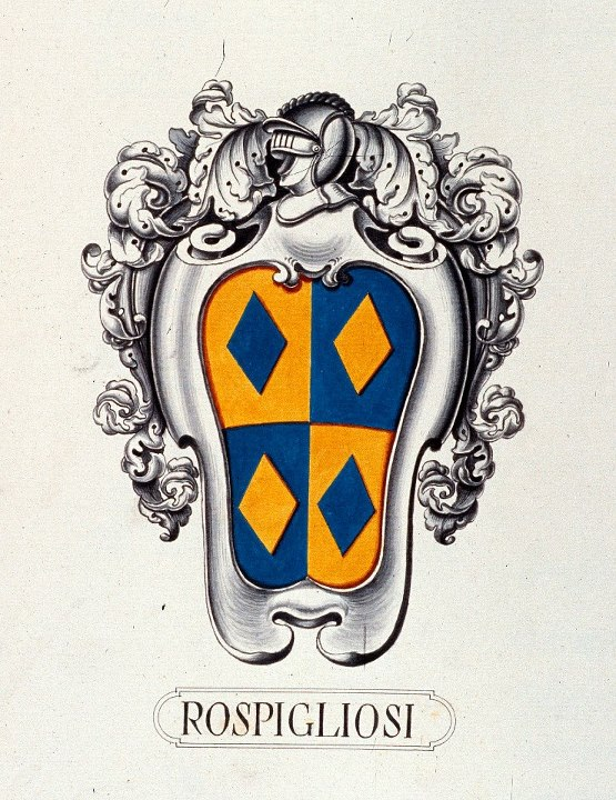 Coat of Arms of the Rospigliosi family